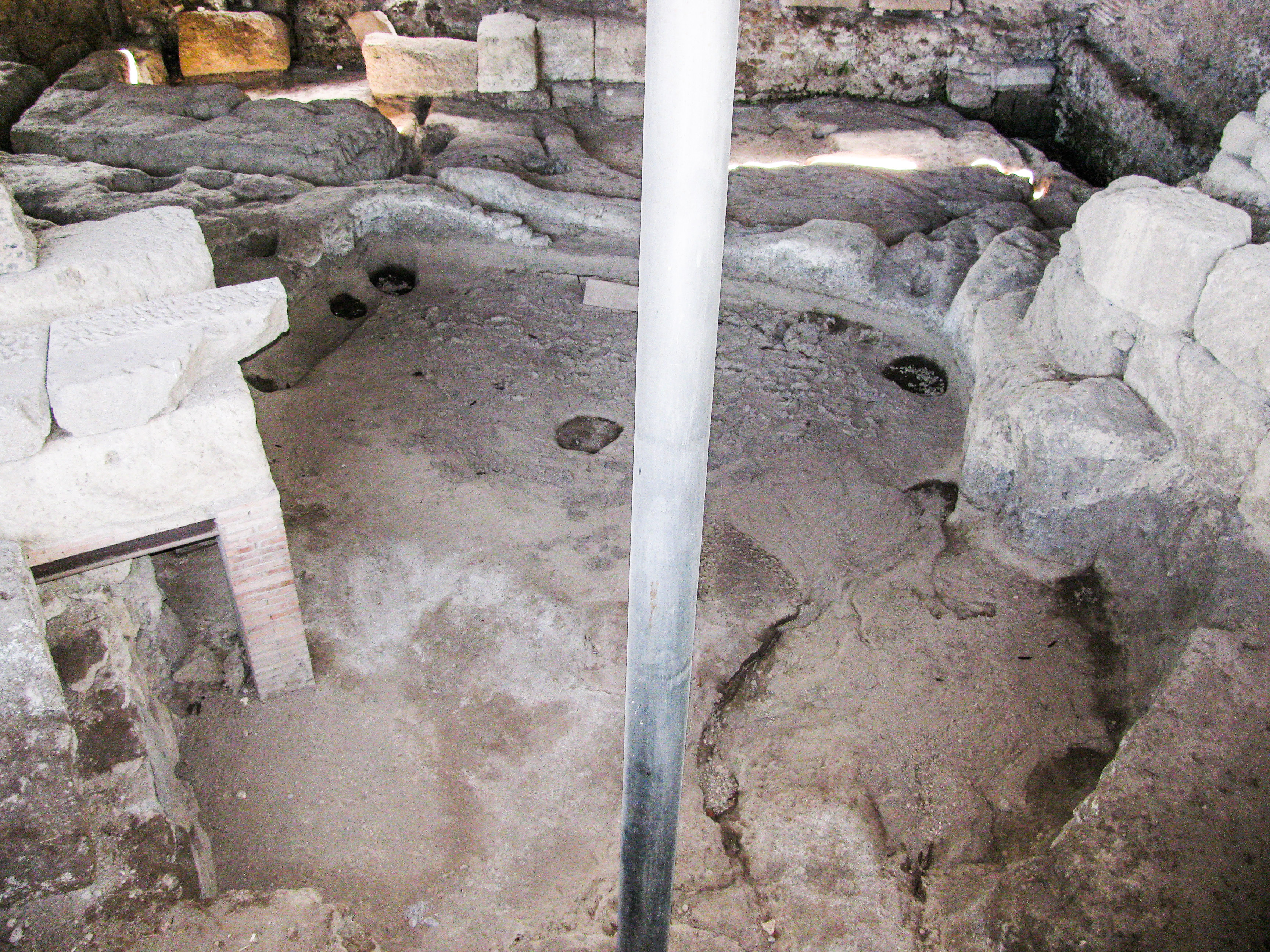 Roman archaic huts on Palatin mount. Perhaps VIIIth centure BC